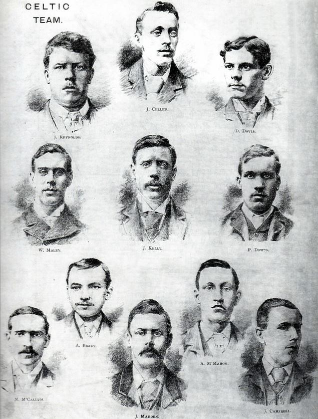 Celtic FC Players in 1891-92 Scottish Cup final